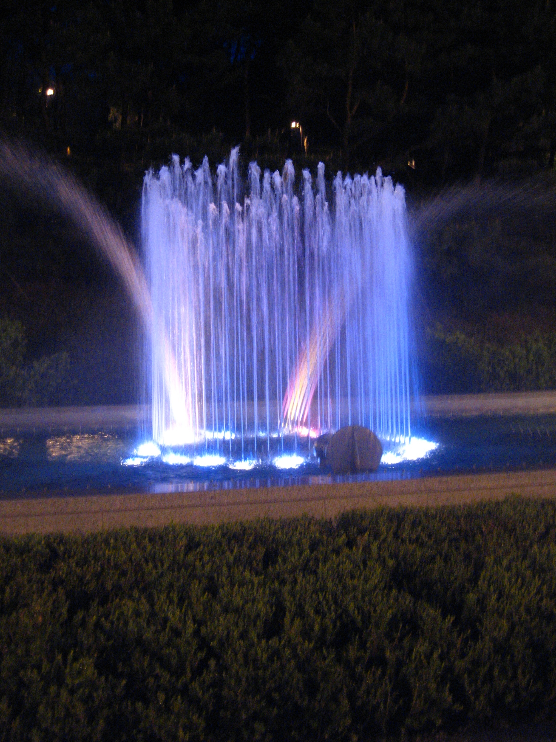 Seoul Arts Center